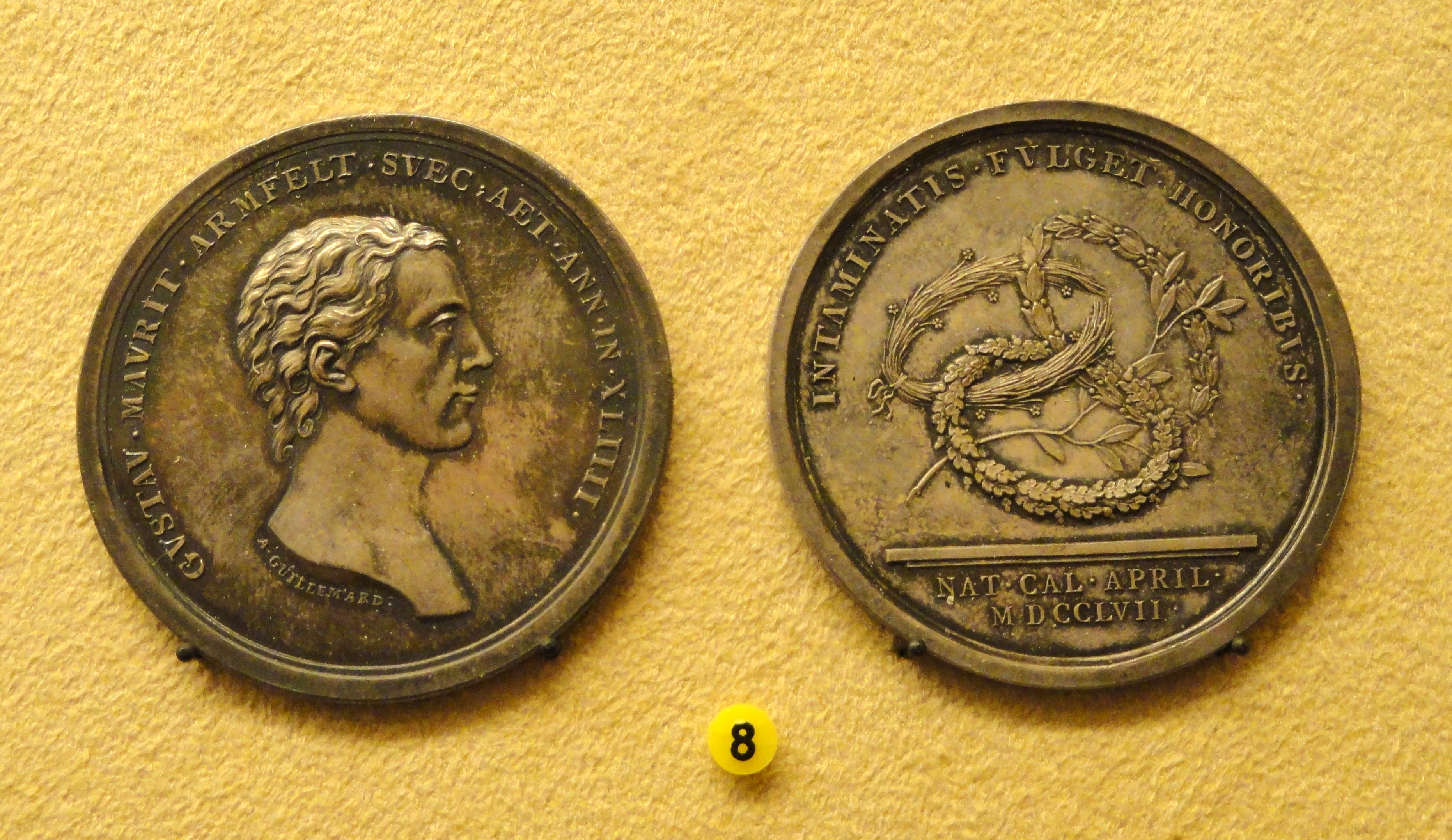 Coin / medal in the National Museum of Finland, Helsinki, Finland. This artwork is in the public domain because the artist(s) died more than 70 years ago.